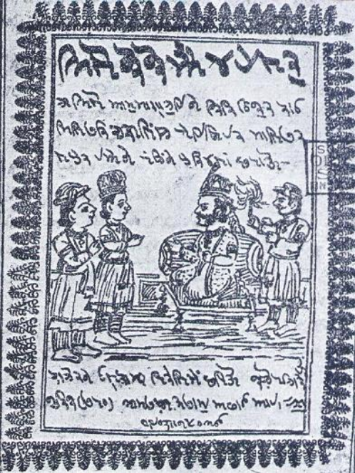 Cover of a book containing the epic Dodo Chanesar written in Standard Sindhi (photo from Michel Boivin).